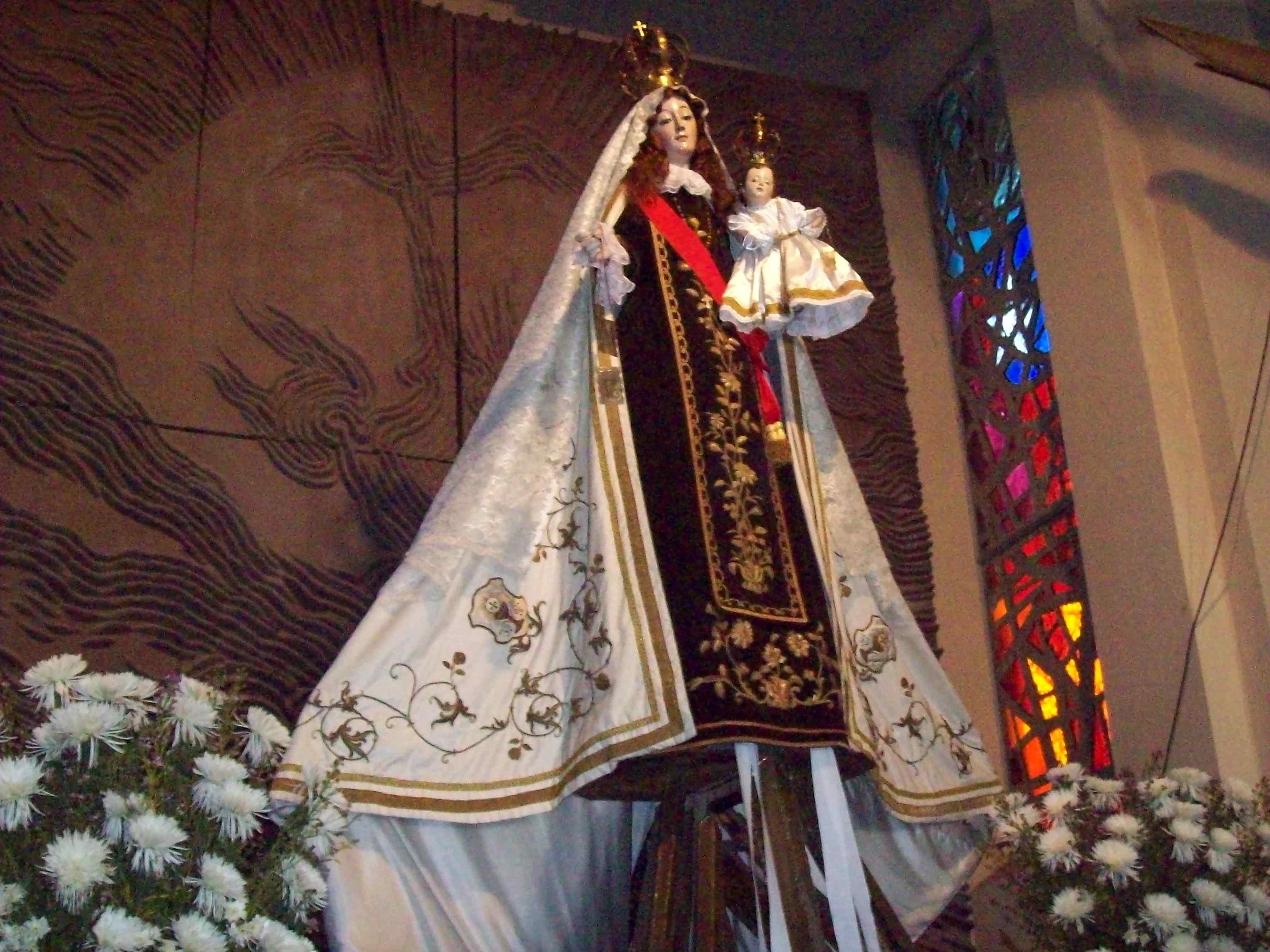 Virgen del Carmen, Maipú.